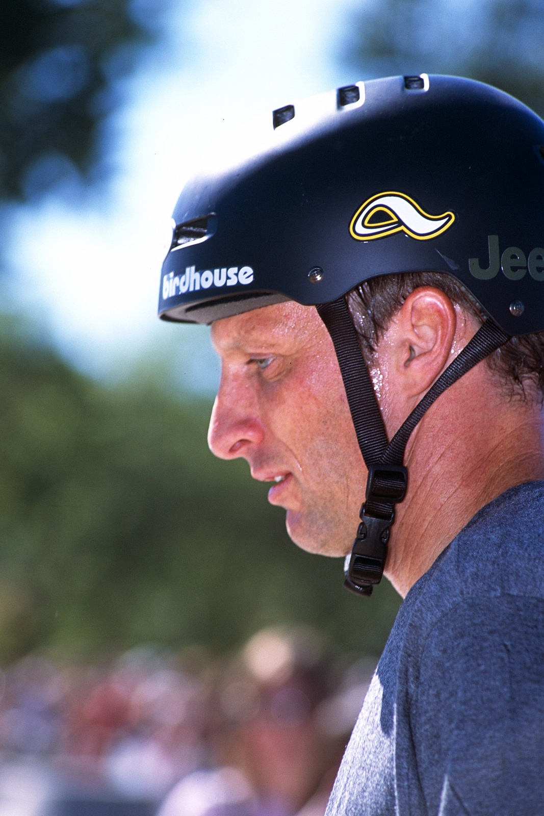 Tony Hawk at the opening of the Mobash skate park in Missoula, Montana